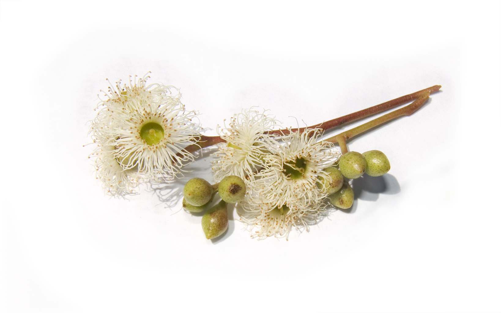 Eucalyptus melliodora, commonly known as Yellow Box, is a medium sized to occasionally tall eucalypt